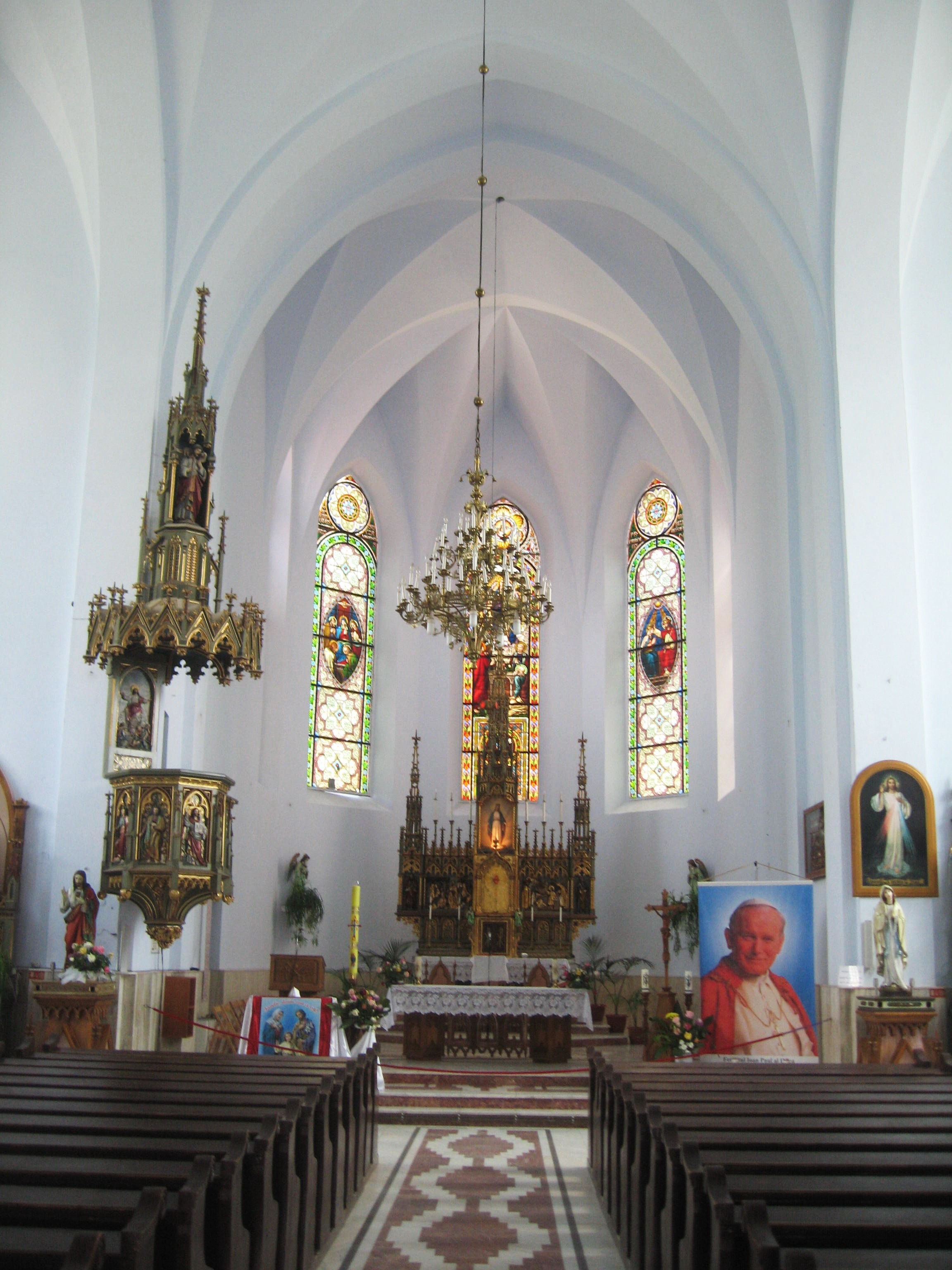 Roman-Catholic Church in Cacica, Suceava County, Romania